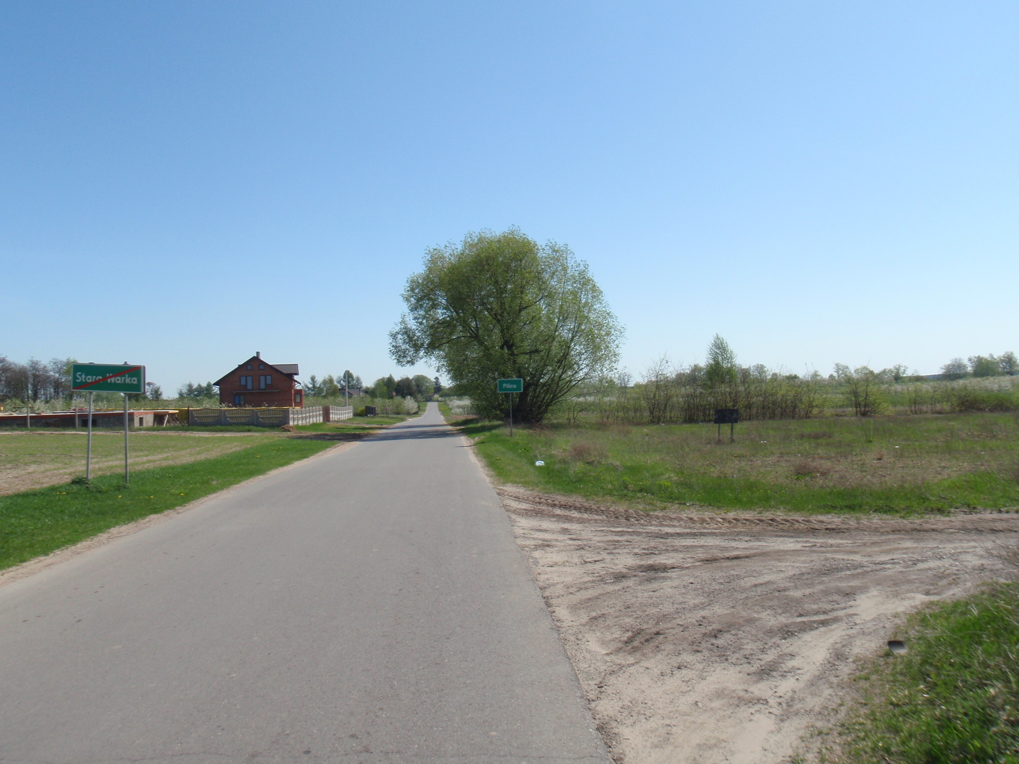 Pilica village in Gmina Warka. Entrance from Stara Warka.